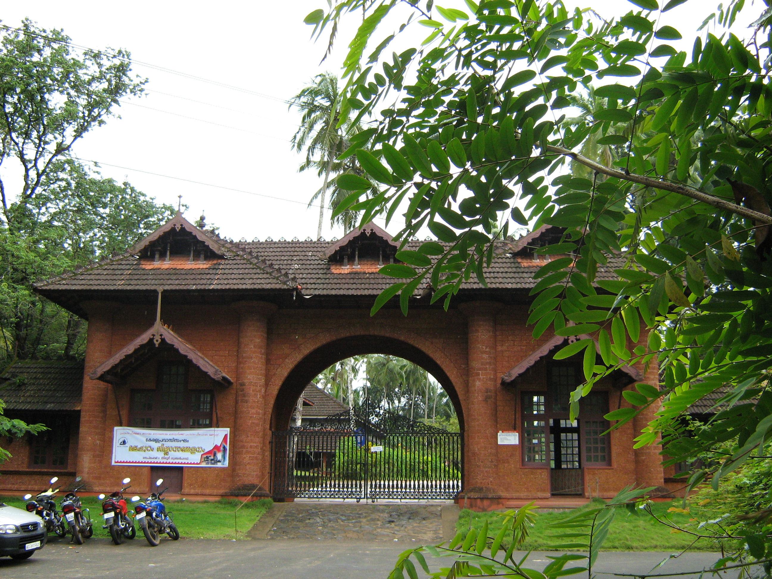 Thunchan Smarakam, Thunchan memorial in Vettathunad (Vettattnad). Photographed by ManojTV on 5.9.2007